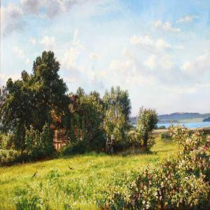 Bisholt ved Horsens Bugt, painting by the Danish artist Pauline Thomsen.